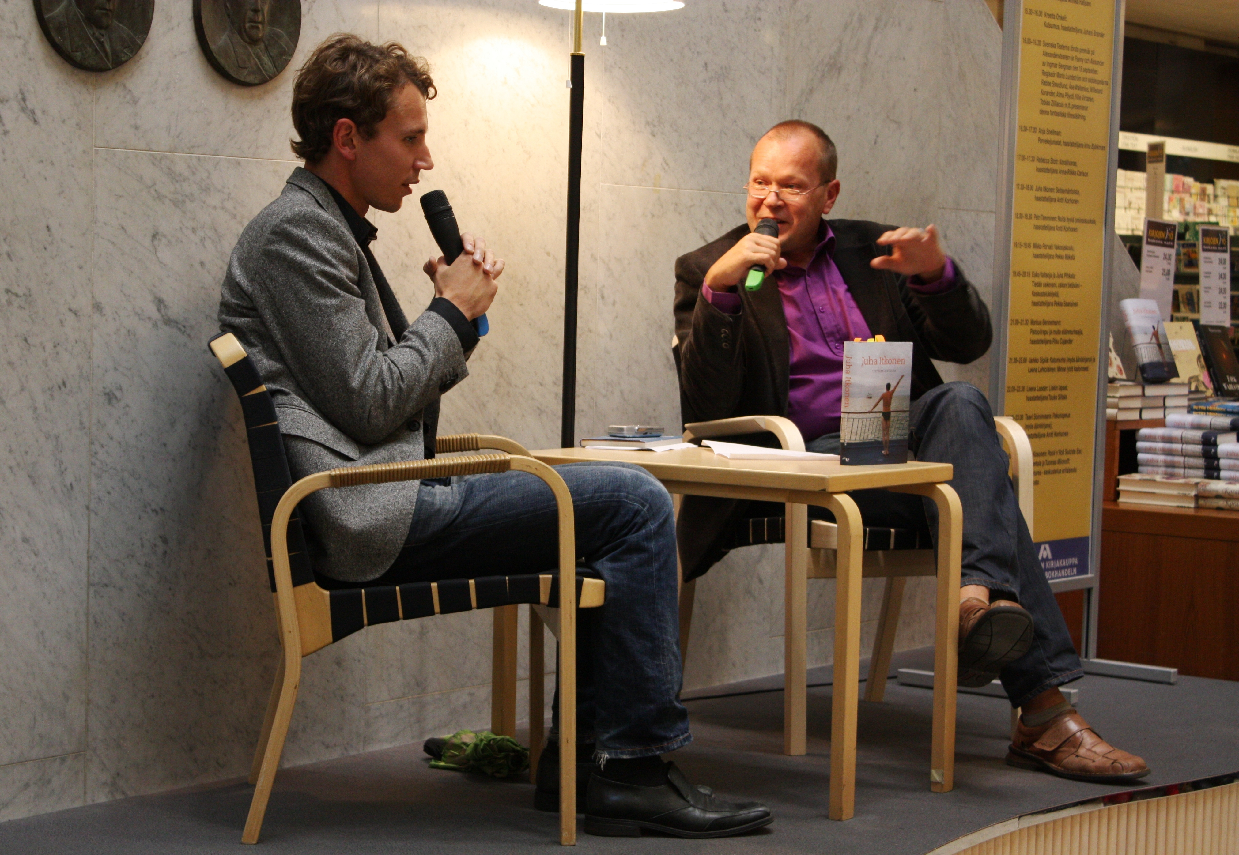 Juha Itkonen, Finnish writer, interviewed by journalist Antti Korhonen on the Night of the Arts in Helsinki, 2010.